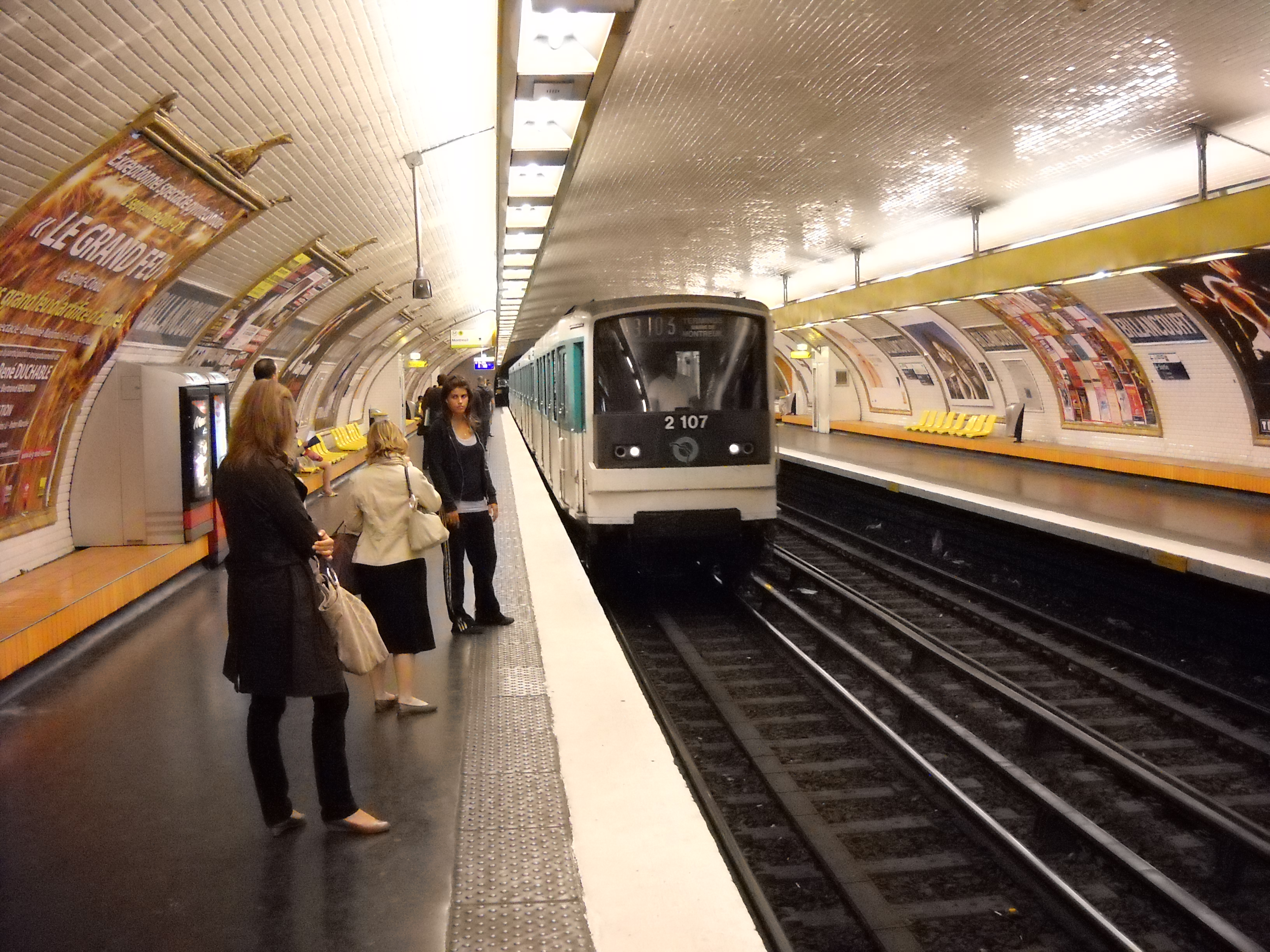 Billancourt station, on Paris metro line 9.